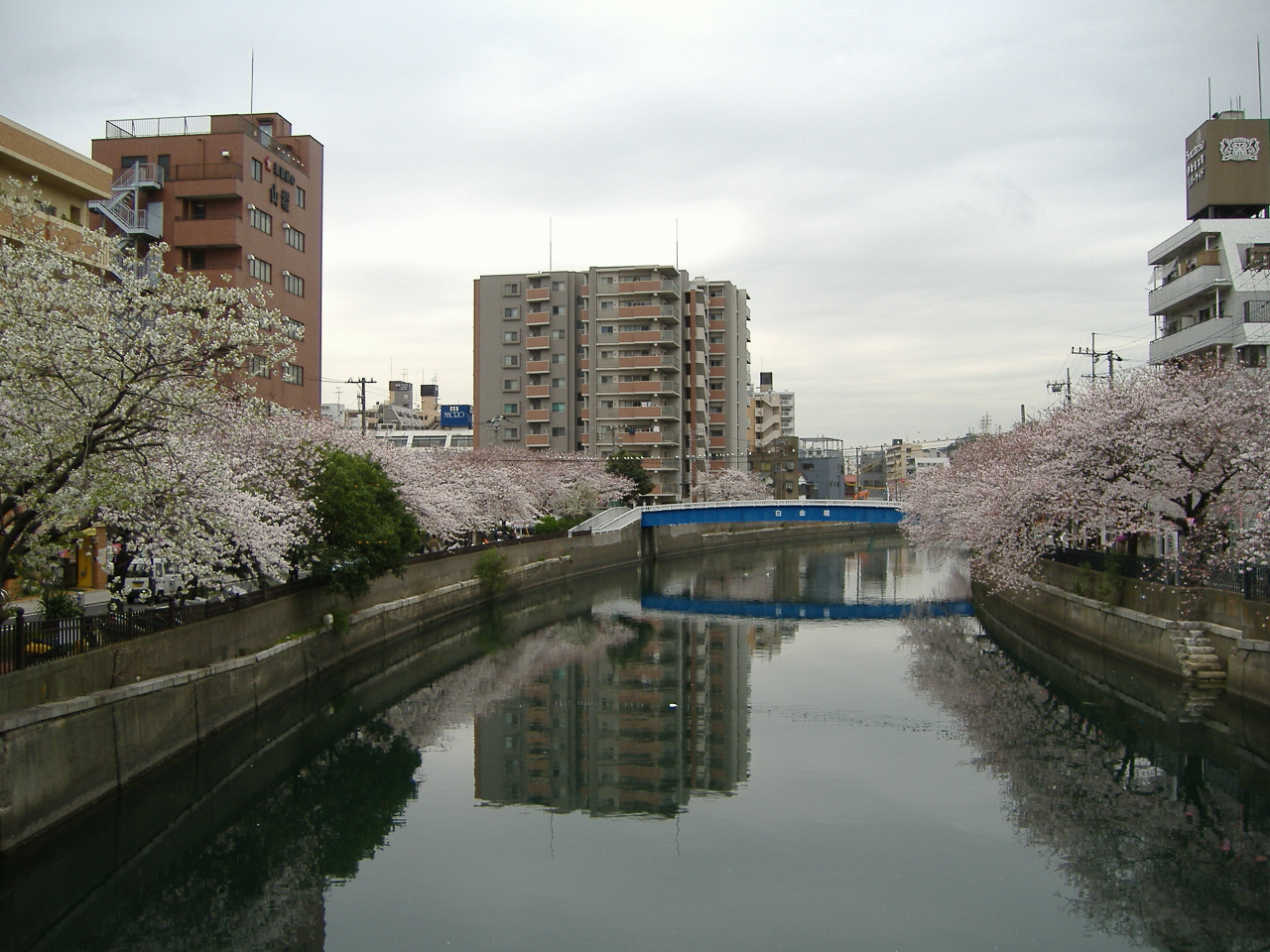 Ōoka River (Yokohama, Japan)